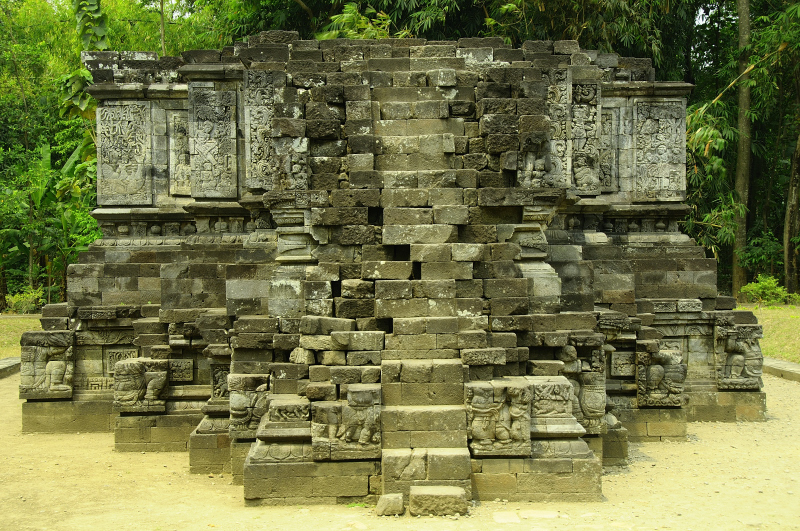 Candi Surowono, Pare, Kediri, Jawa Timur.